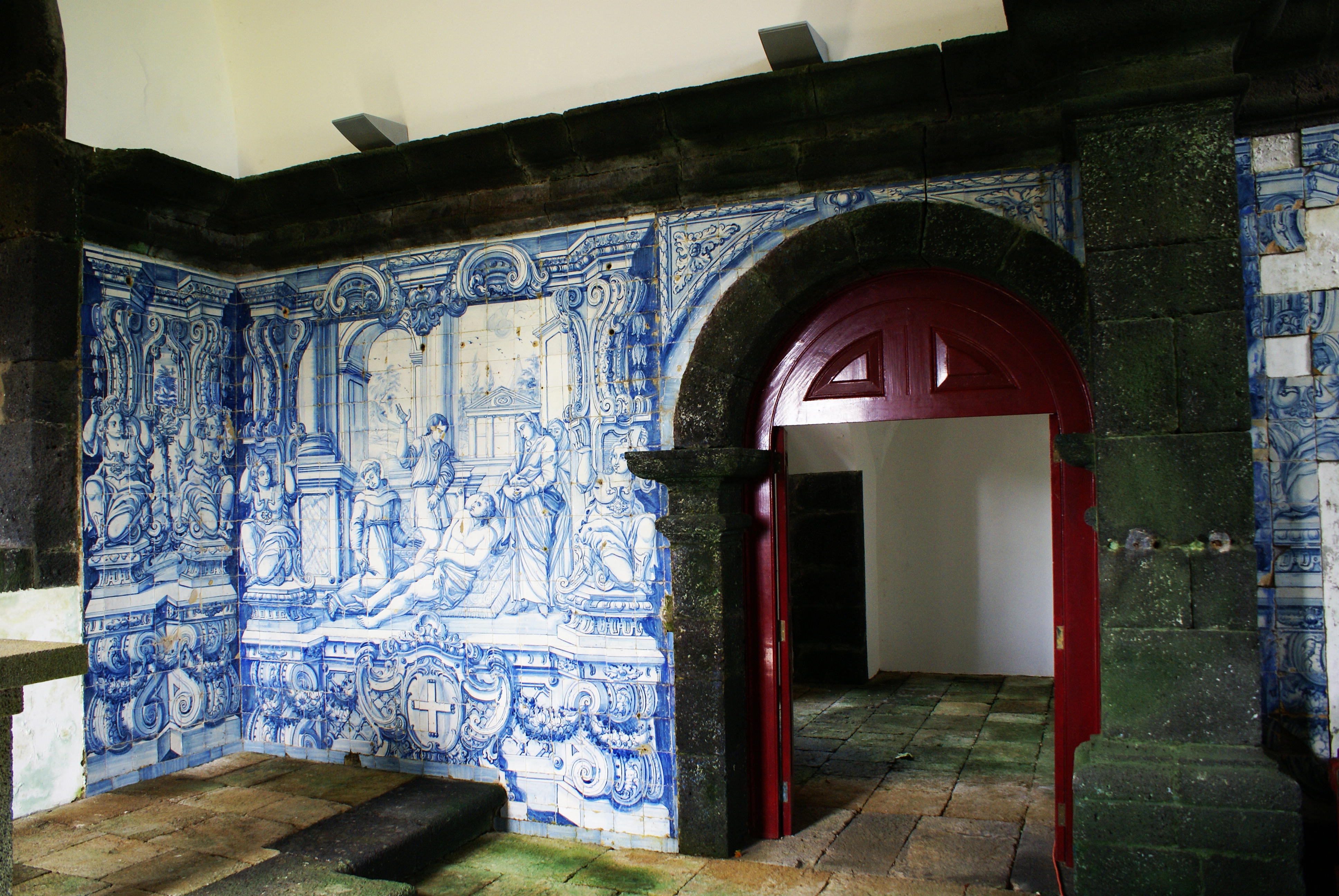 Detail of the azulejos of the Chapel of Santo António, located within the walls of the Fort of Santa Cruz, Angústias, Horta, Faial (Azores), Portugal